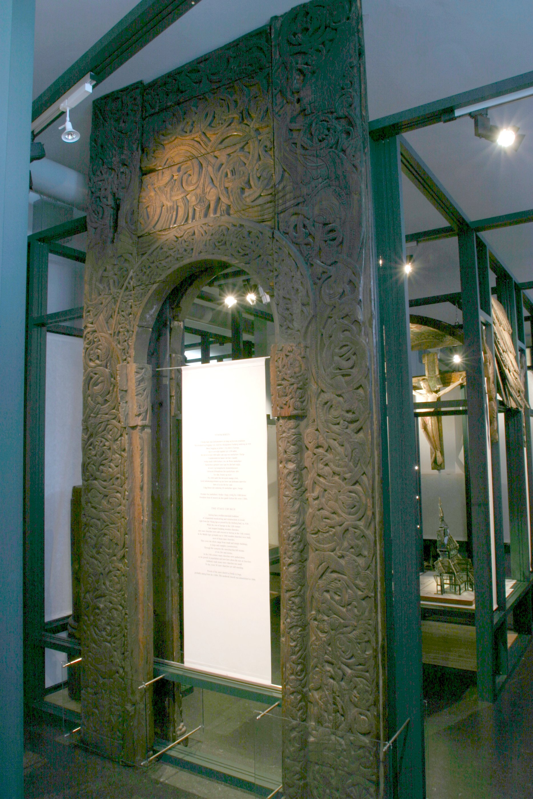 MOTIV: Portal PERIODE: truleg 1180-talet FUNNSTAD: Stedje stavkyrkje KOMMUNE: Sogndal ENGLISH: Door / portal frå abt. 1180 A.D., found in Stedje stave church, Sogndal, Western Norway. Exibited in Bergen museum.